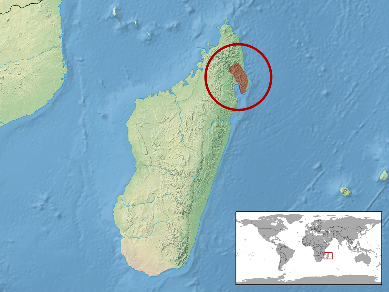 geographaic distribution of Calumma marojezense (Native: Madagascar)